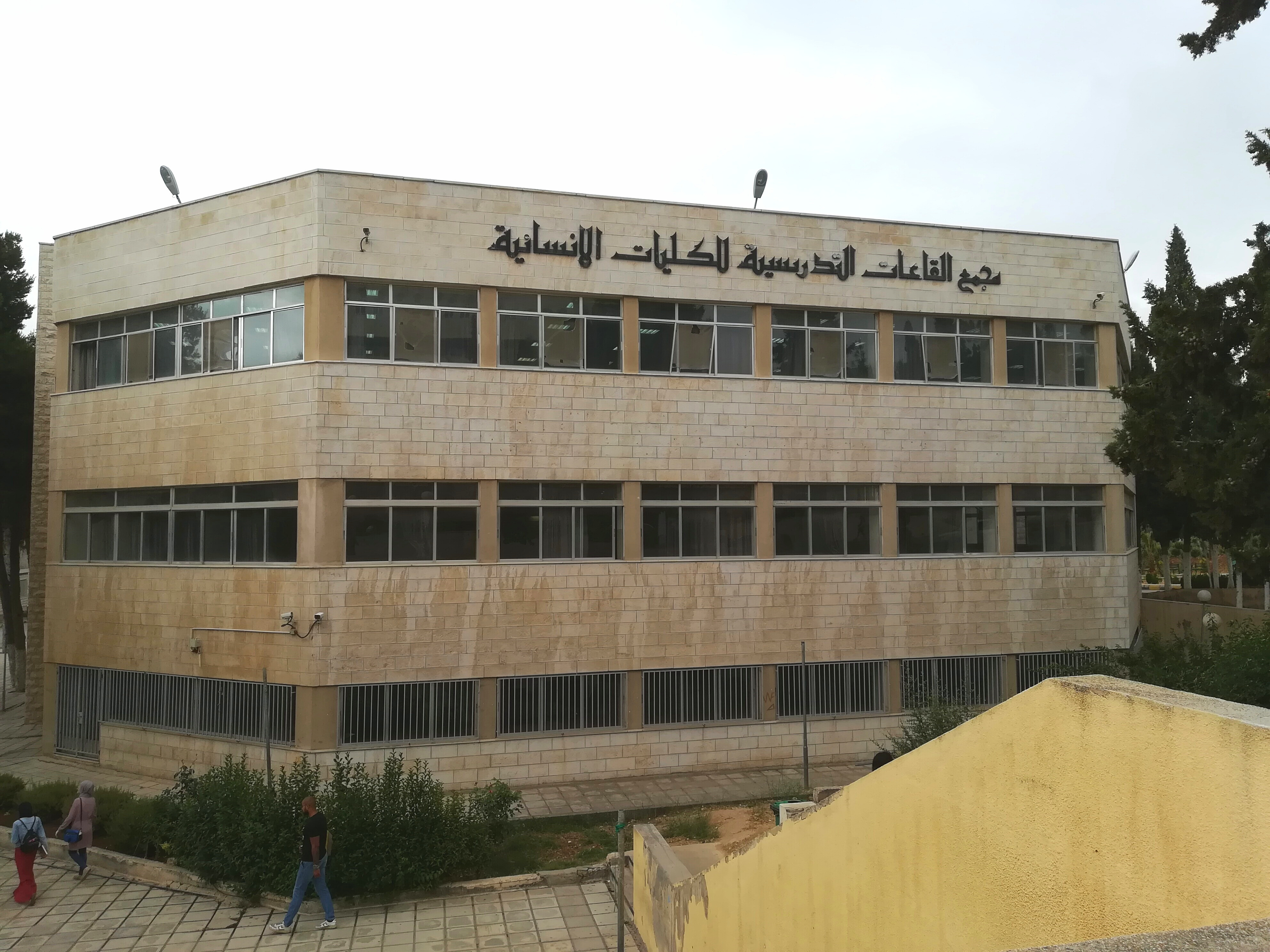 Halls of Faculties of Humanities building in University of Jordan